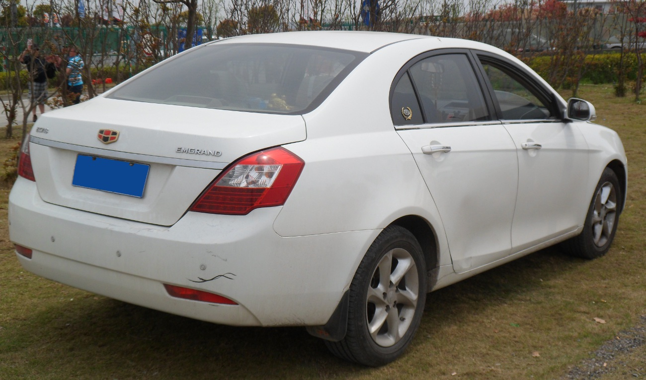 Emgrand EC7 photographed in Anting, Shanghai municipality, China.